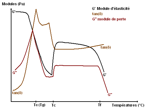 Dynamic mechanical analysis curves of polymers